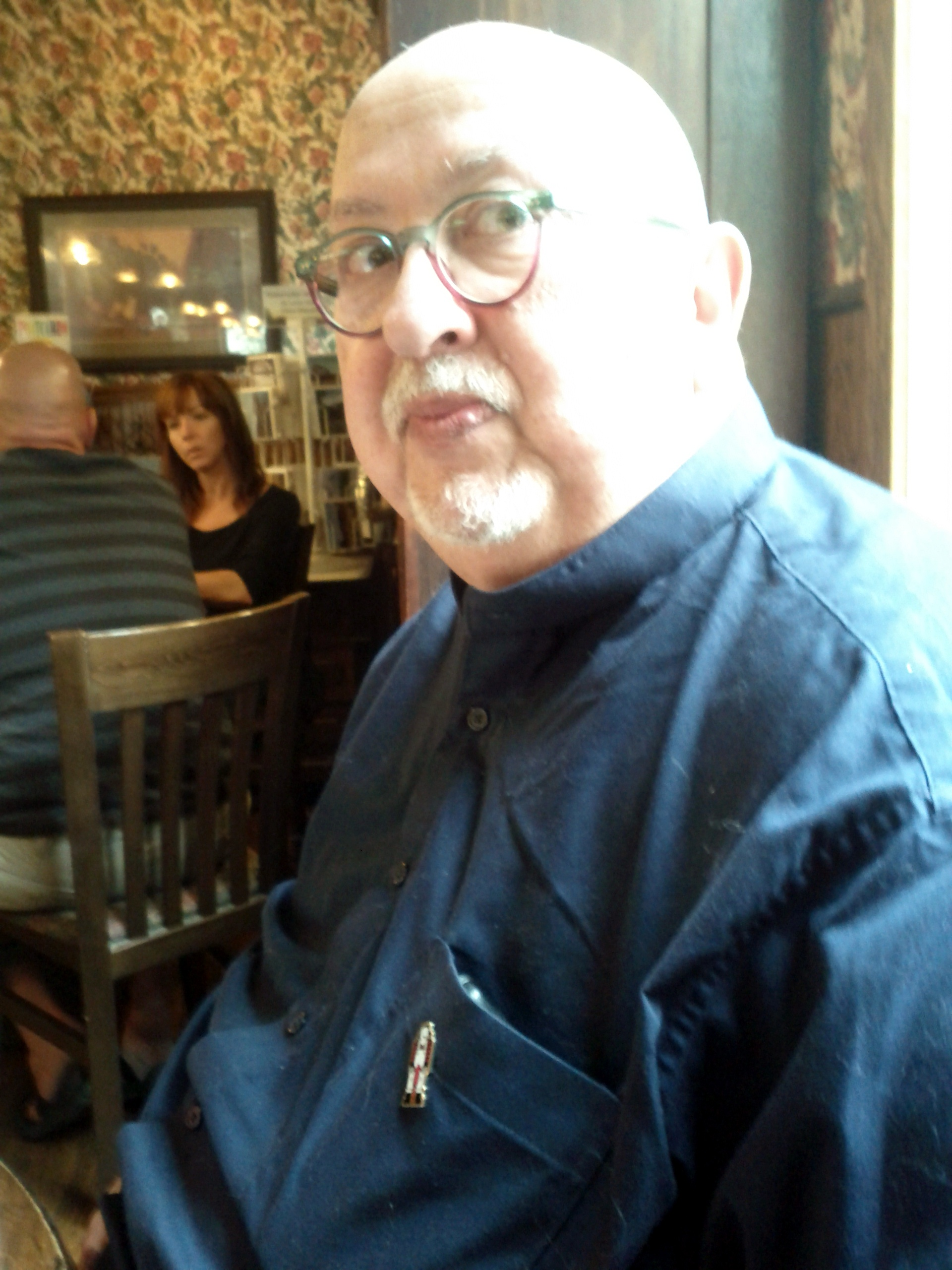 Daniel Pinkwater wearing a Boing Boing! pin in Poughkeepsie, New York. Photograph by Cory Doctorow, 2011.